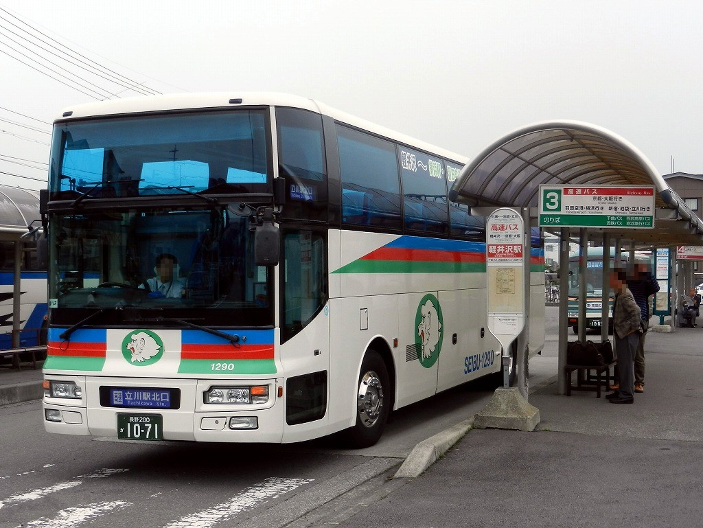 Seibu Kogen bus Highwaybus "Karuizawa-Tachikawa"